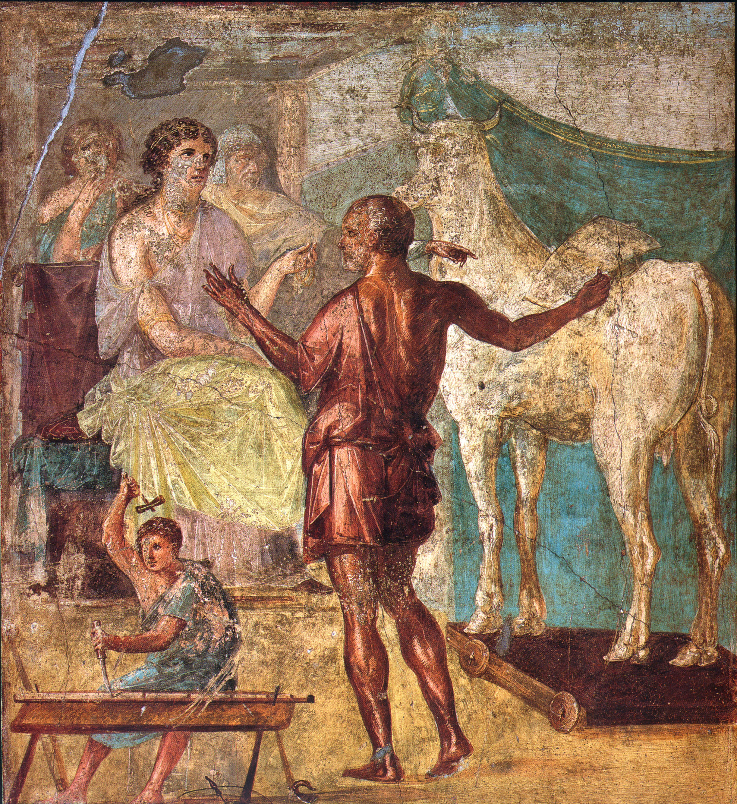 Daedalus, Pasiphae and wooden cow. Roman fresco from the northern wall of the triclinium in the Casa dei Vettii (VI 15,1) in Pompeii.